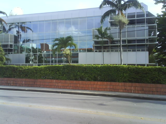 Building for the British High Commission (to Barbados & the Eastern Caribbean) on Lower Colleymore Rock Rd. in Bridgetown, Barbados.